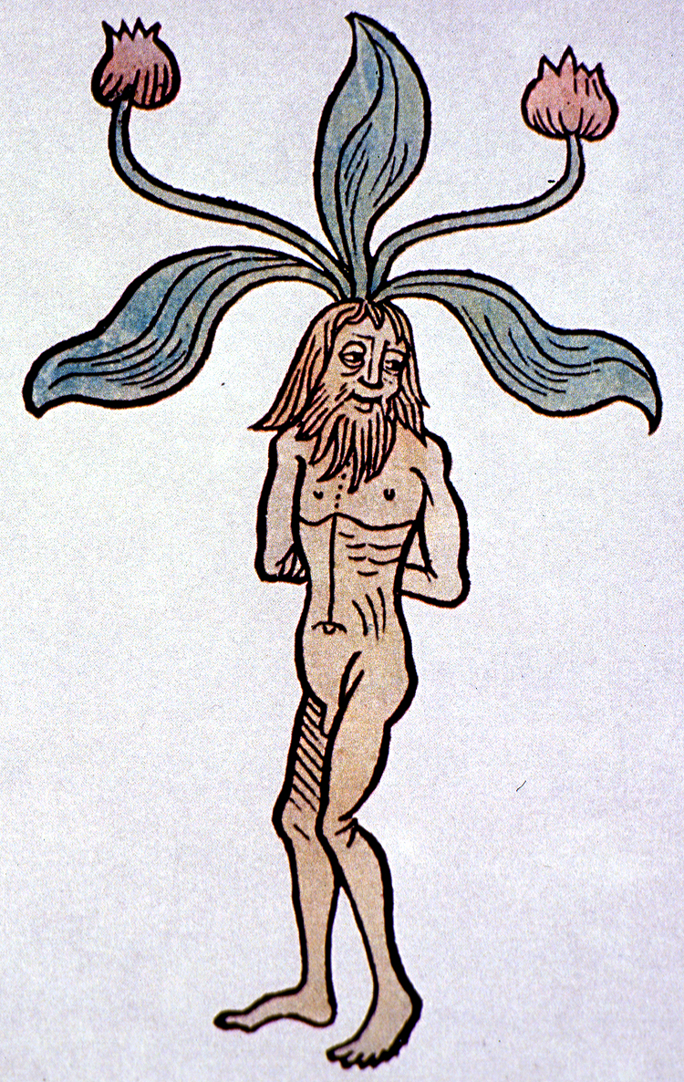 A mandrake, from: Jacob Meydenbach: Hortus sanitatis, 1491